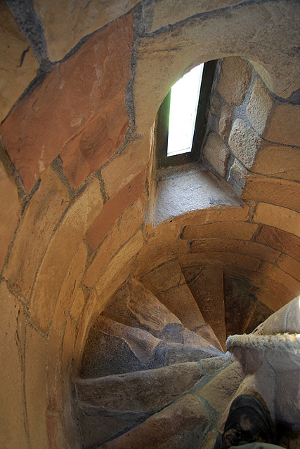 A spiral stair at Jedburgh Abbey These spiral stone steps provide access to a small first floor viewing area at the west end of the building. A rope is provided as a handrail.